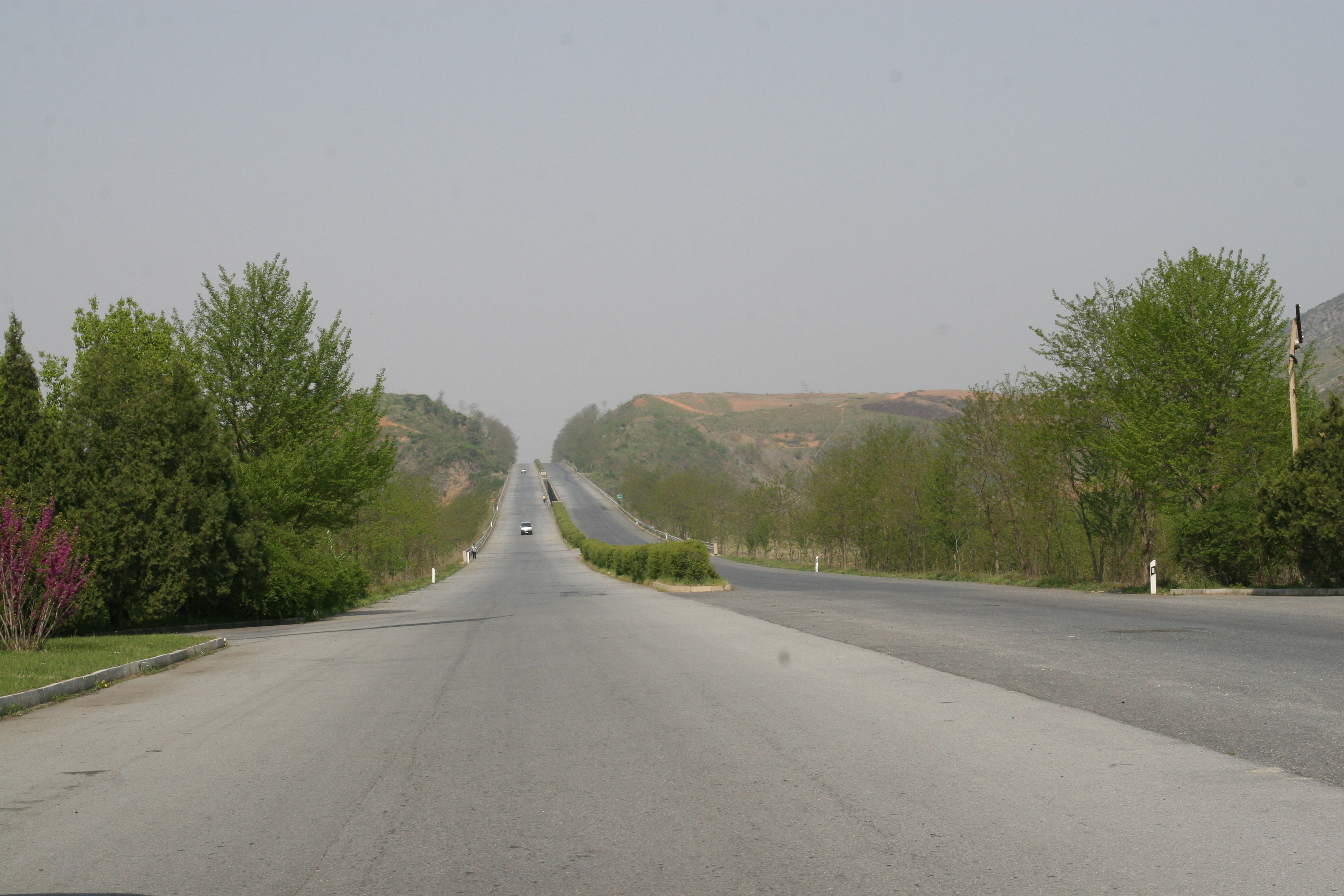 A Highway outside of Pyongyang, Democratic People's Republic of Korea (North Korea)